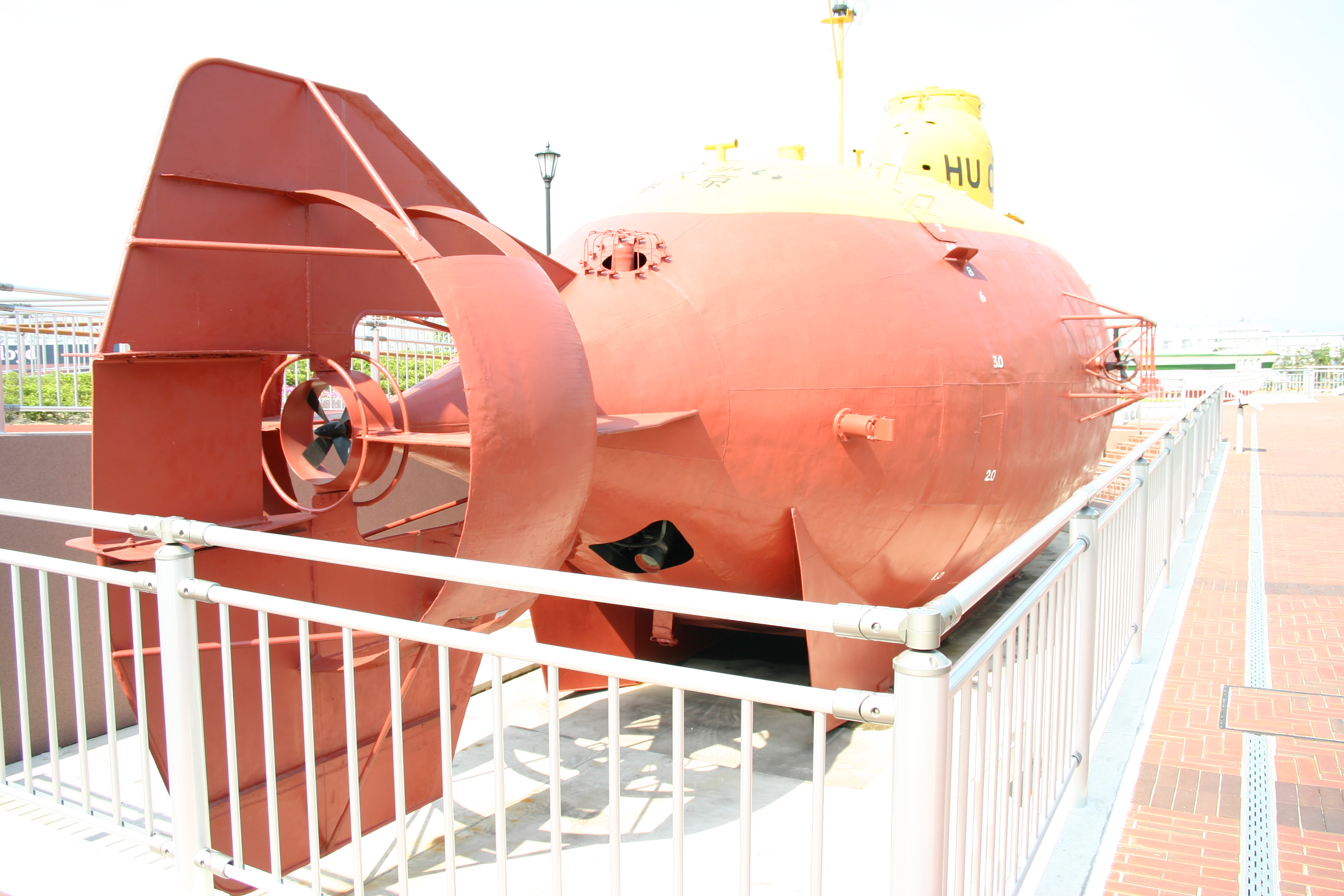 Afterpart of Japanese submersible Shinkai